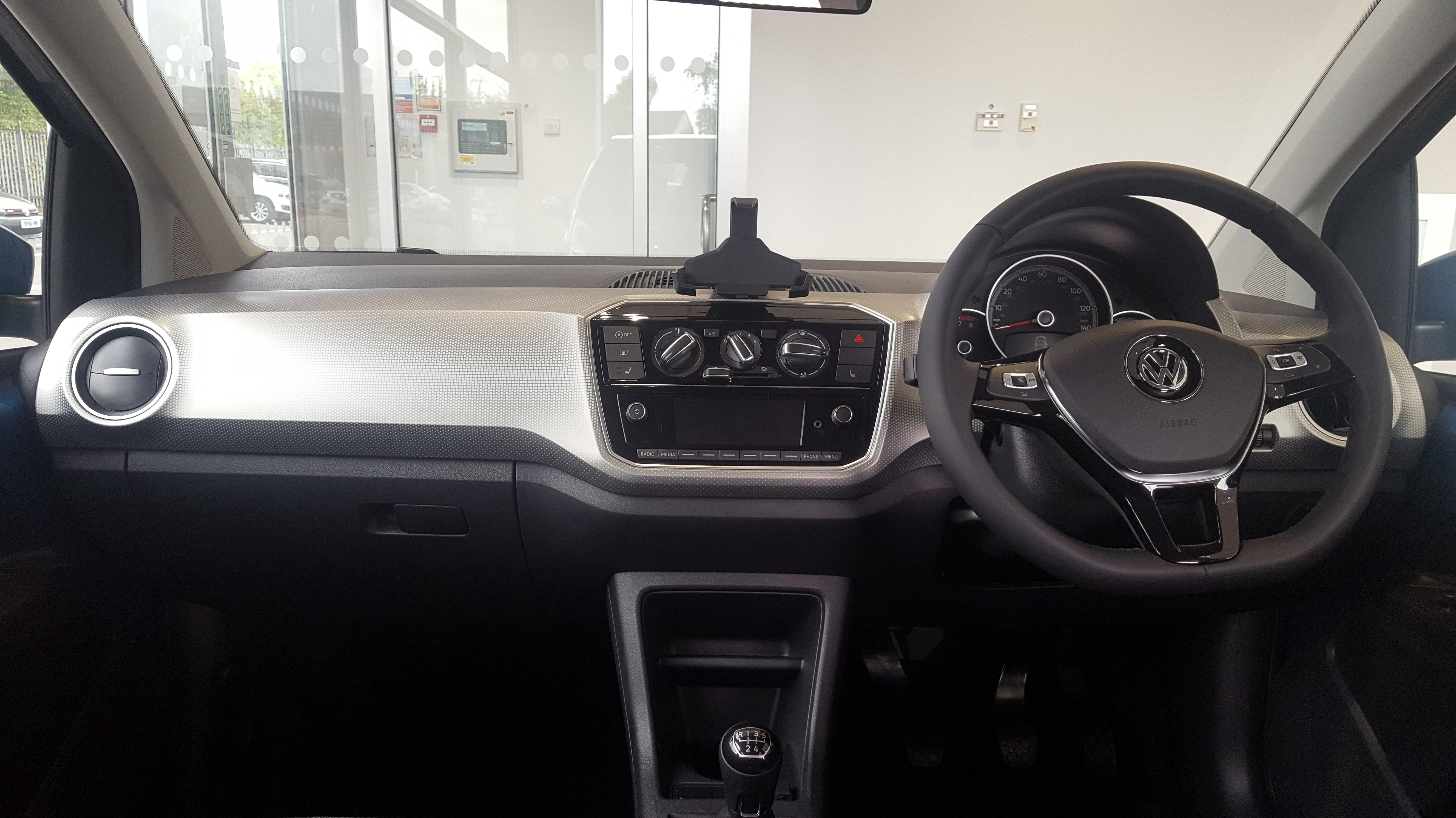 2018 Volkswagen High up! TSi 1.0 Interior Taken in Leamington Spa